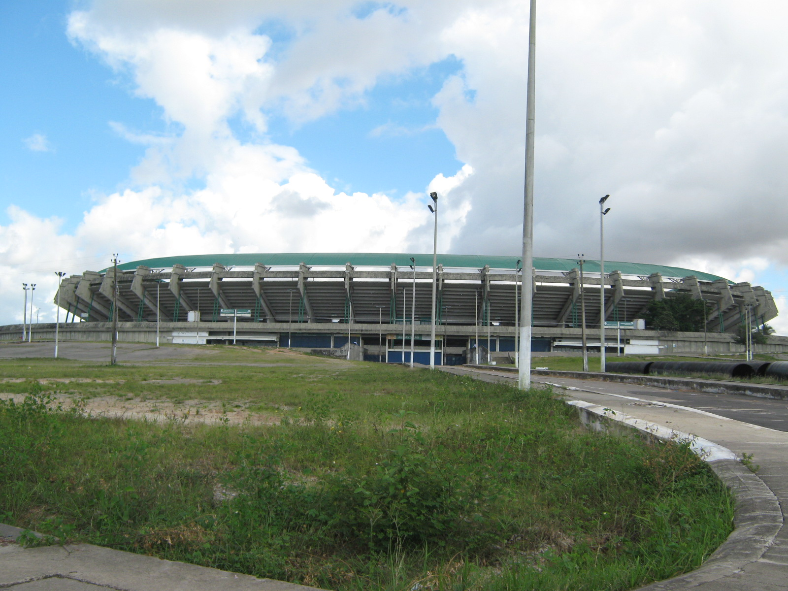 This stadium will be closed for refurbishment and will be one of the stadiums for Brazil 2014 FIFA Wold Cup